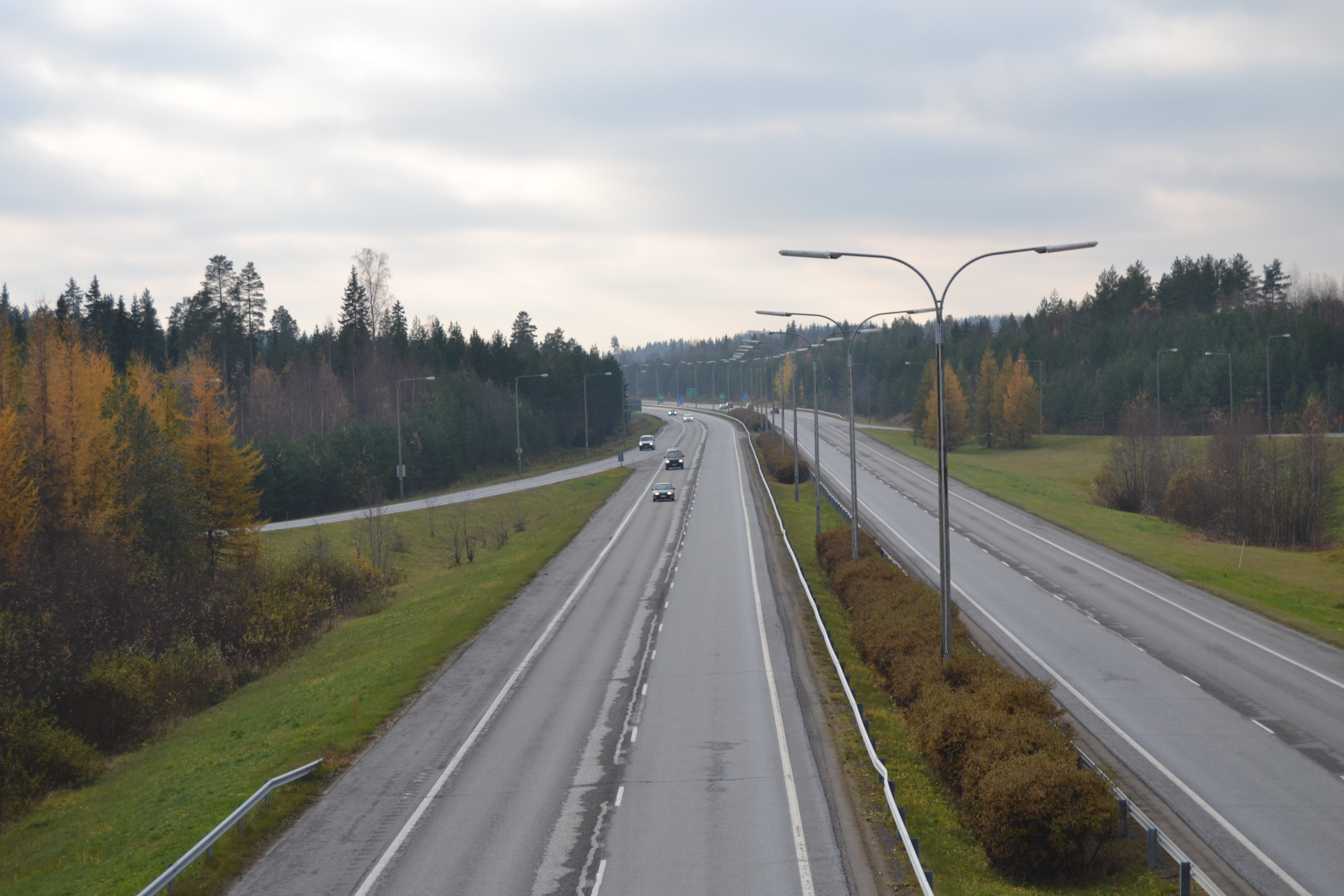 Main road 9 (E63) in Etelä-Keljo, Jyväskylä, Finland.